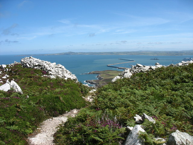 View out of the main gateway of the Iron Age fort Below, the breakwater snakes into Holyhead Bay, beyond which is Carmel Head the NW point of the main island of Anglesey.